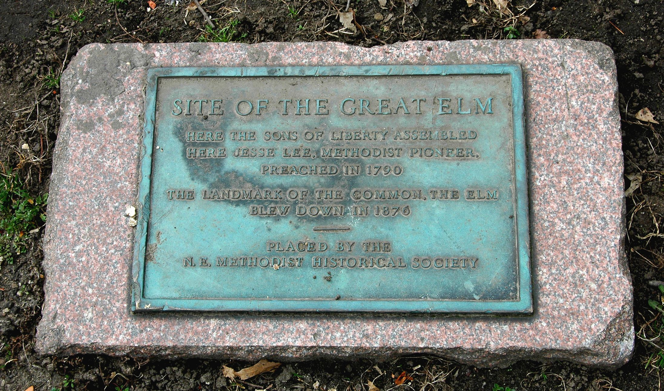 Plaque marking site of the Great Elm on Boston Common, Boston, Massachusetts